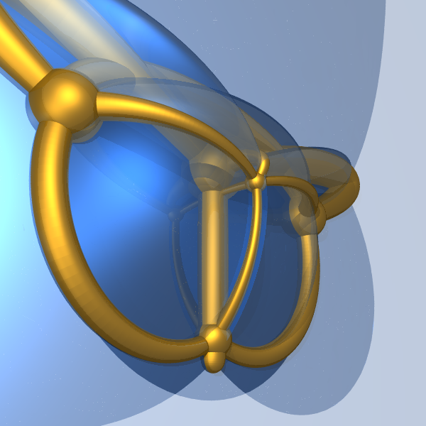 Schlegel diagram of hexateron